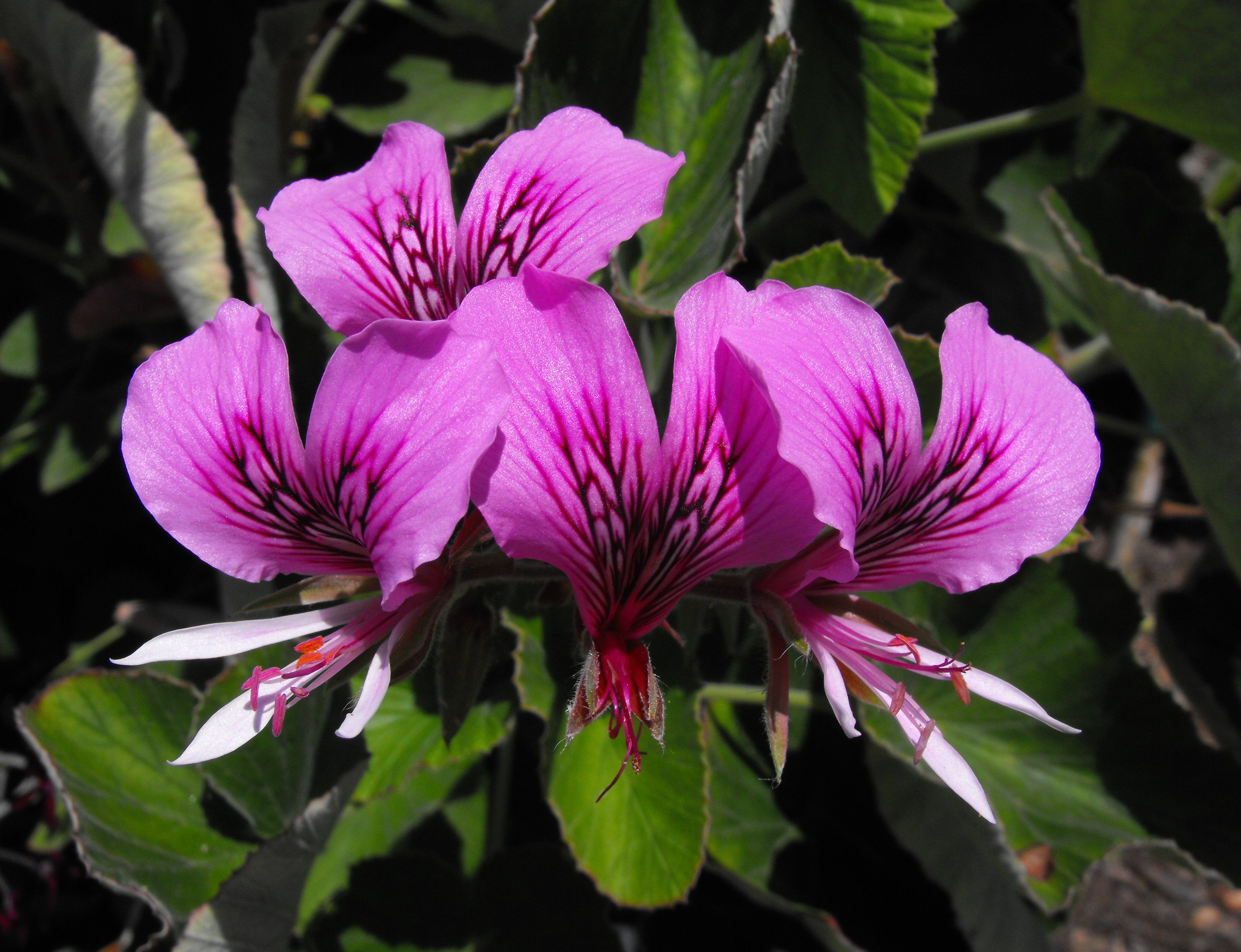 Pelargonium cordifolium at Quail Botanical Gardens in Encinitas, California, USA.